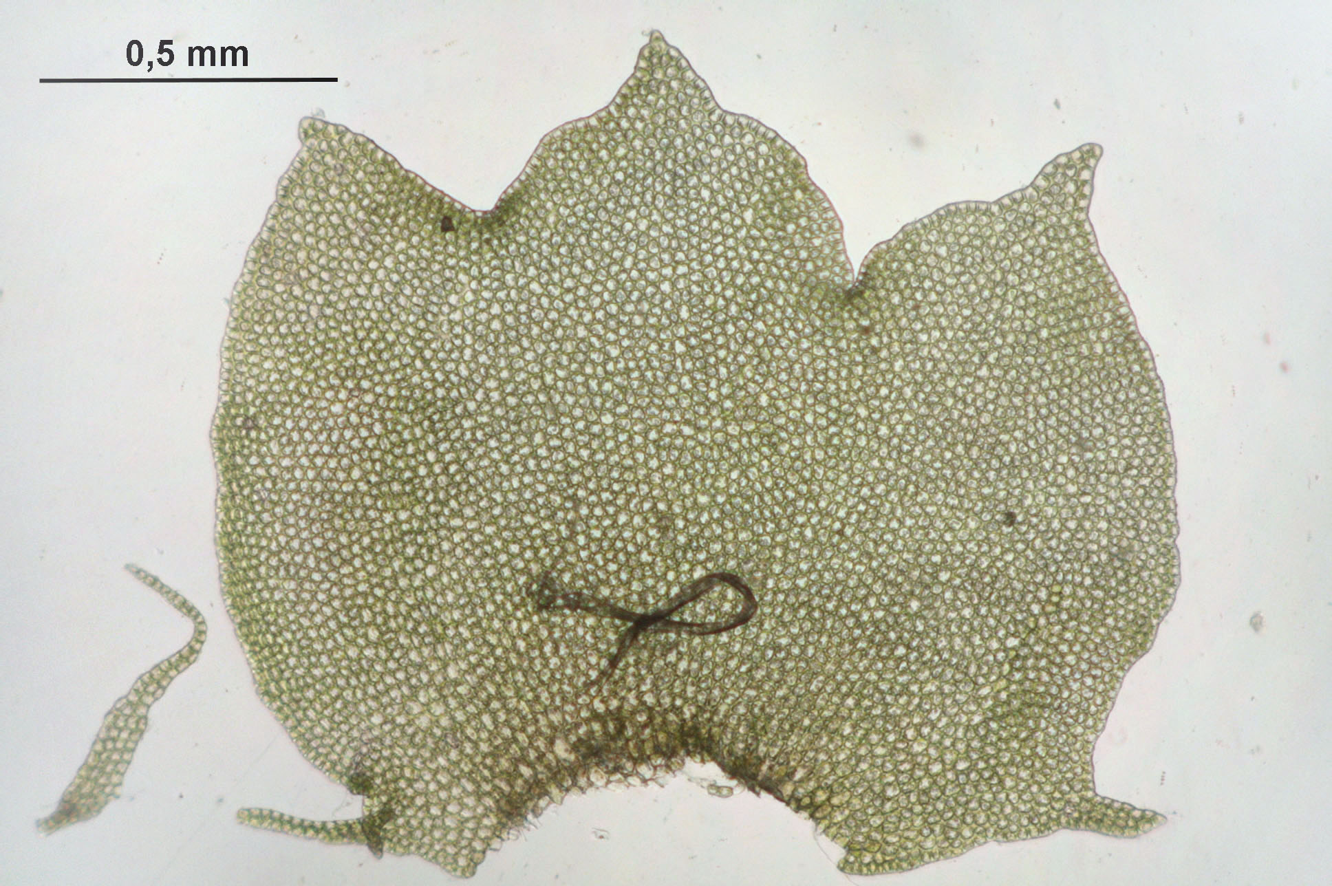 Barbilophozia floerkei